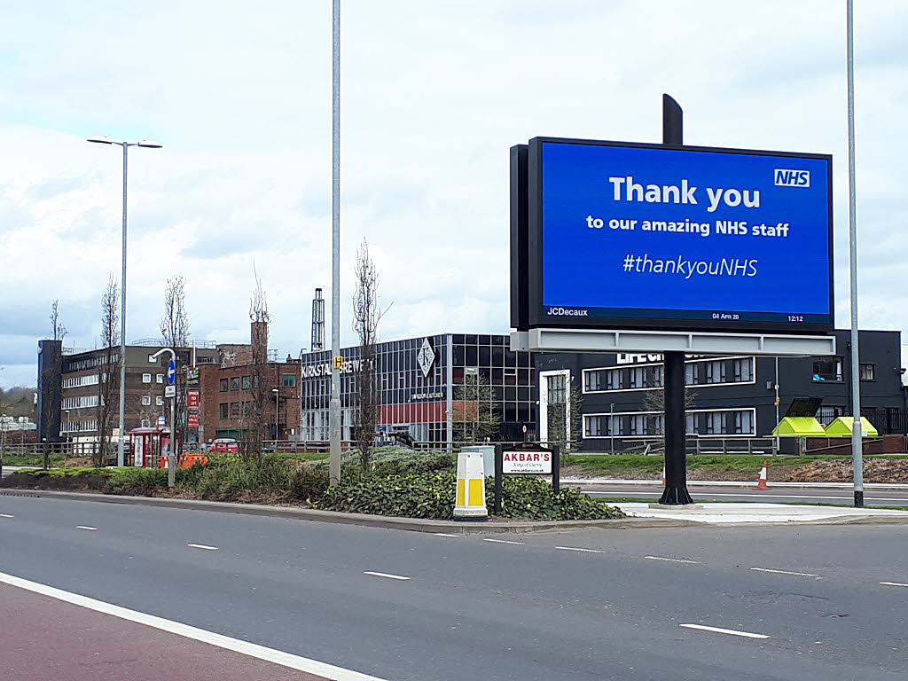 Thank you NHS, Kirkstall Road, Leeds